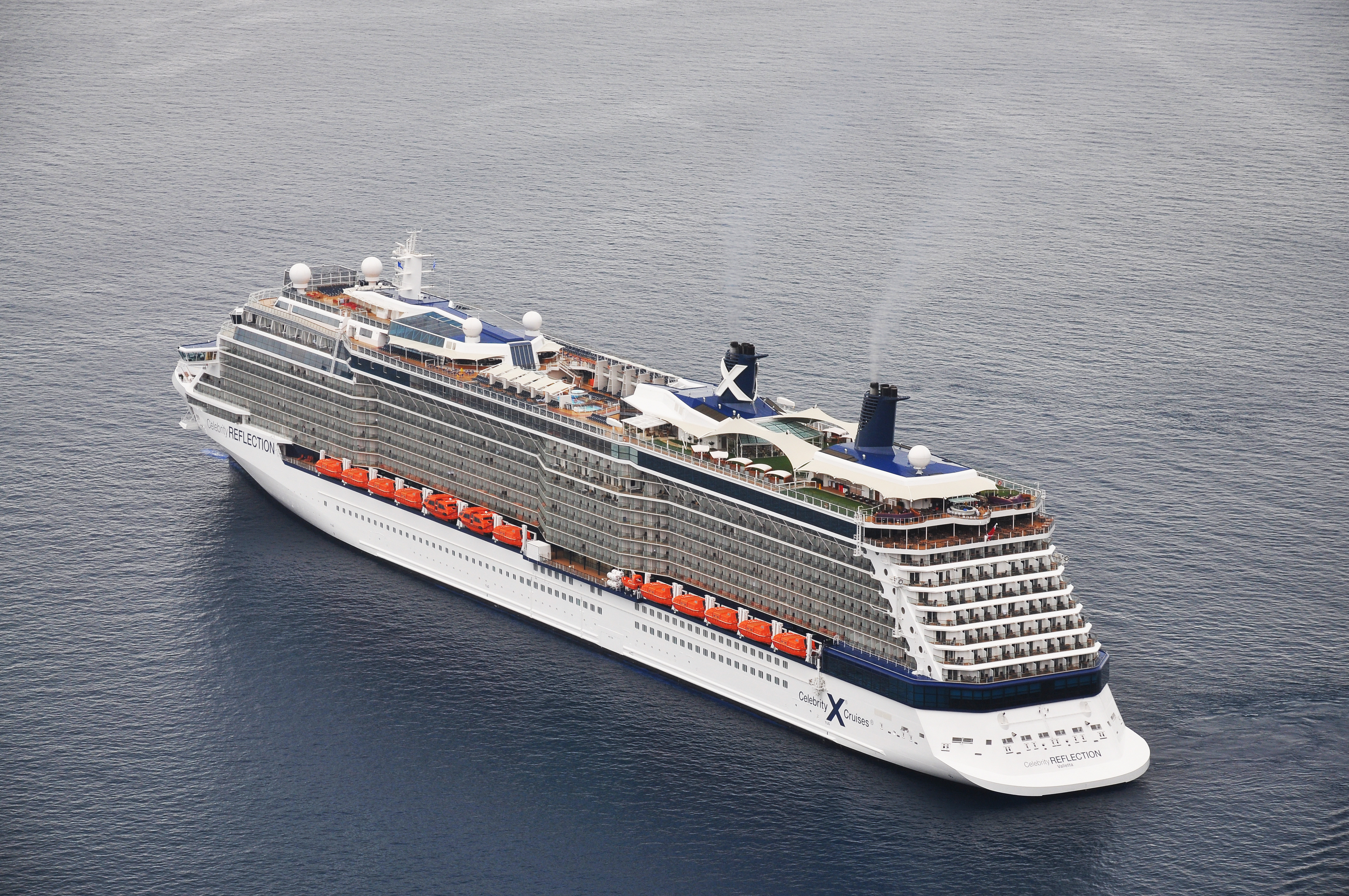 Celebrity Reflection cruise ship in Santorini, Greece.